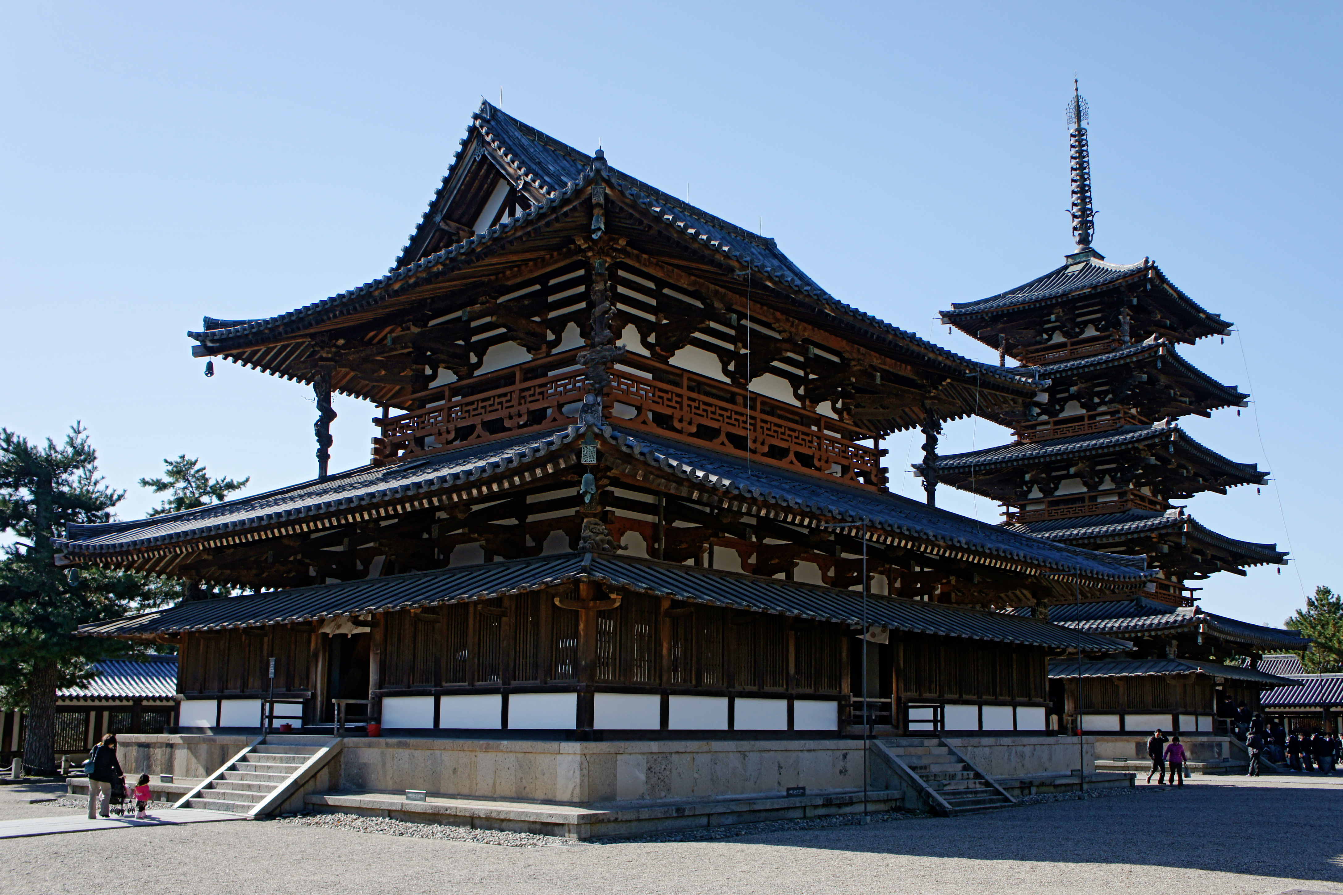 Golden Hall and Five-storied Pagoda of Hōryū-ji are Japan's National Treasures. Hōryū-ji is a Buddhist temple in Ikaruga, Nara prefecture, Japan. It was registered as part of the UNESCO World Heritage Site "Buddhist Monuments in the Hōryū-ji Area".